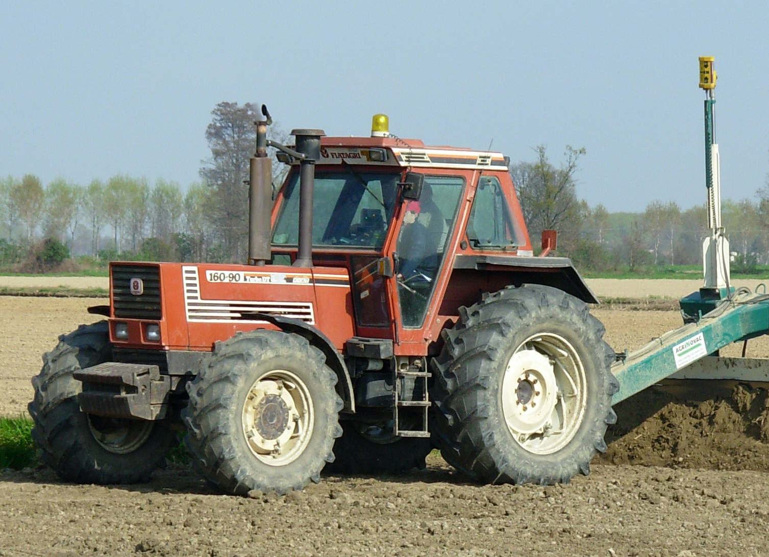 Tractor Fiat 160-90